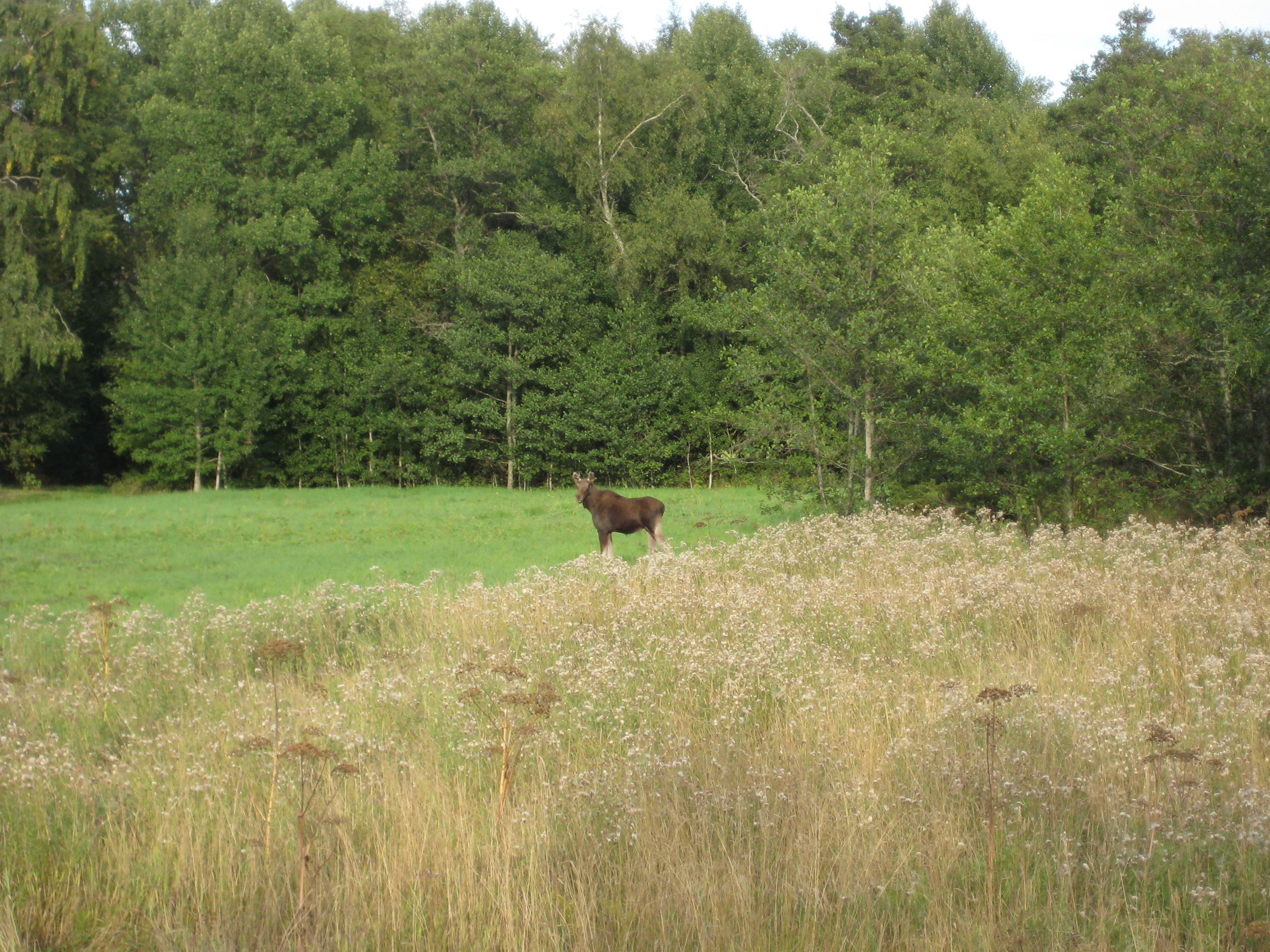 Moose venturing out of the woods on Kumlinge, Åland, Finland.